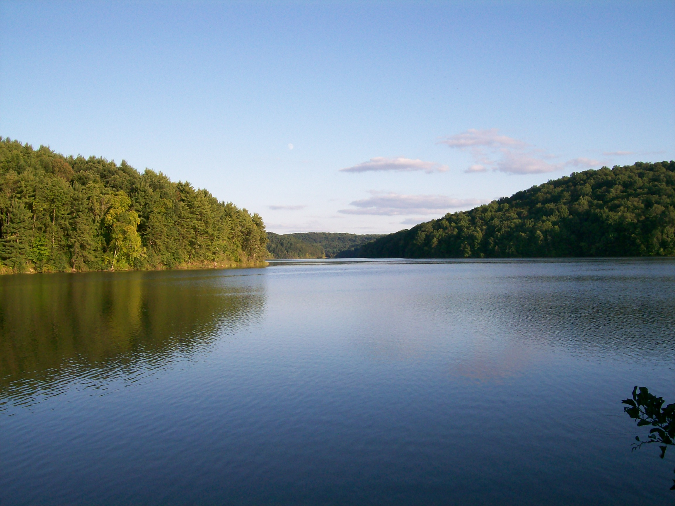 Clendening Lake from Ohio Route 799 in September 2009.